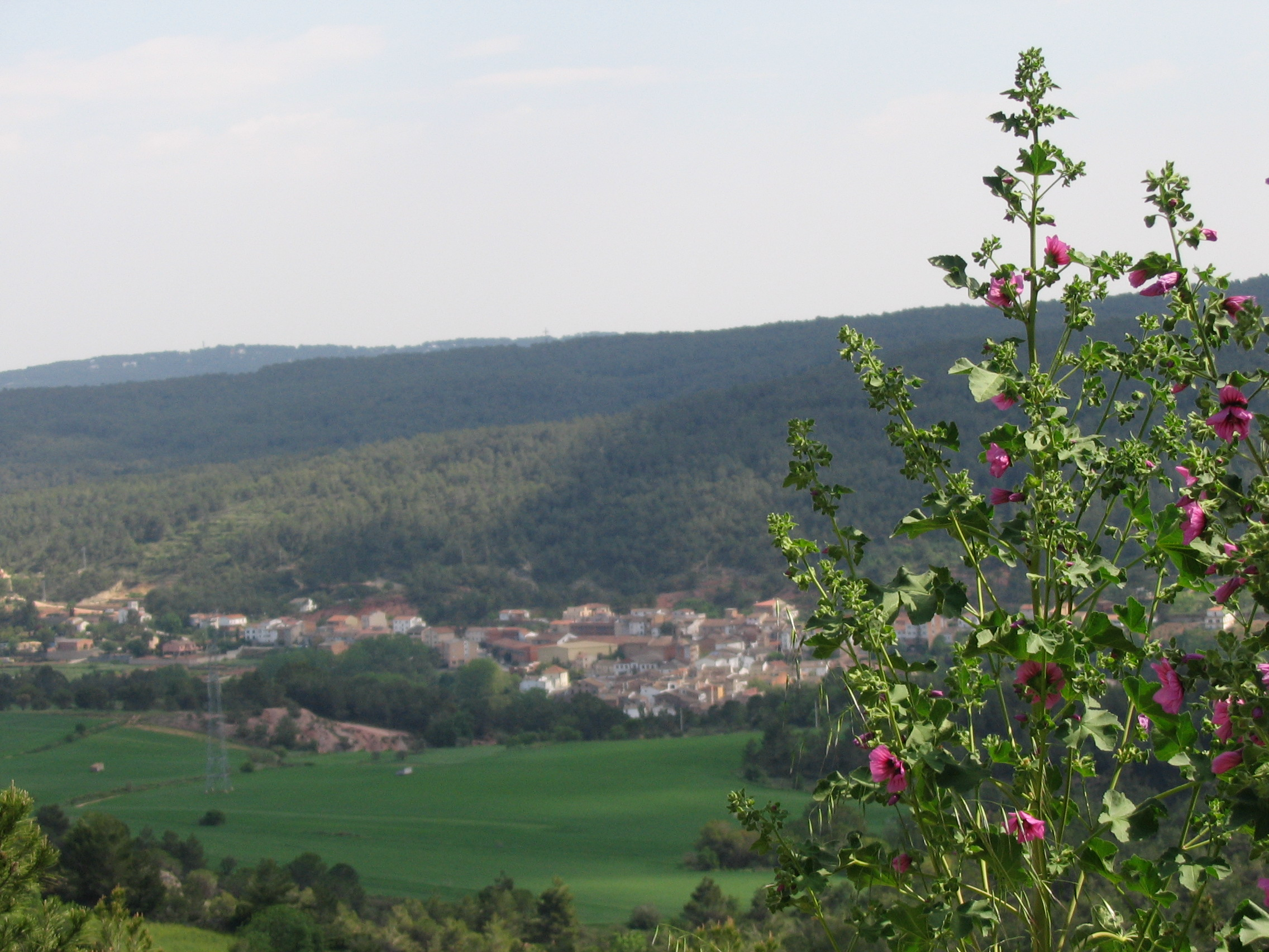 Overvew about the village of Carme, Barcelona, Spain